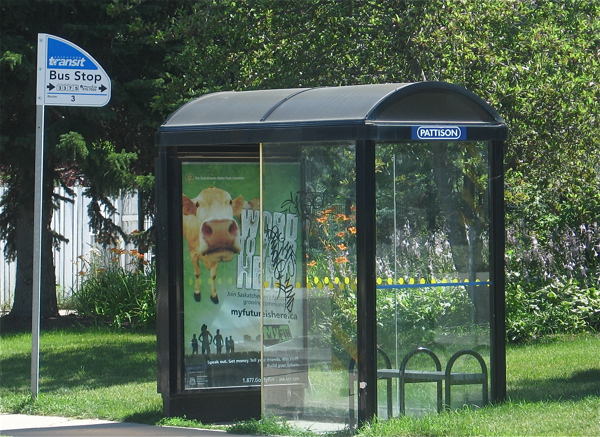 new design STS bus shelter